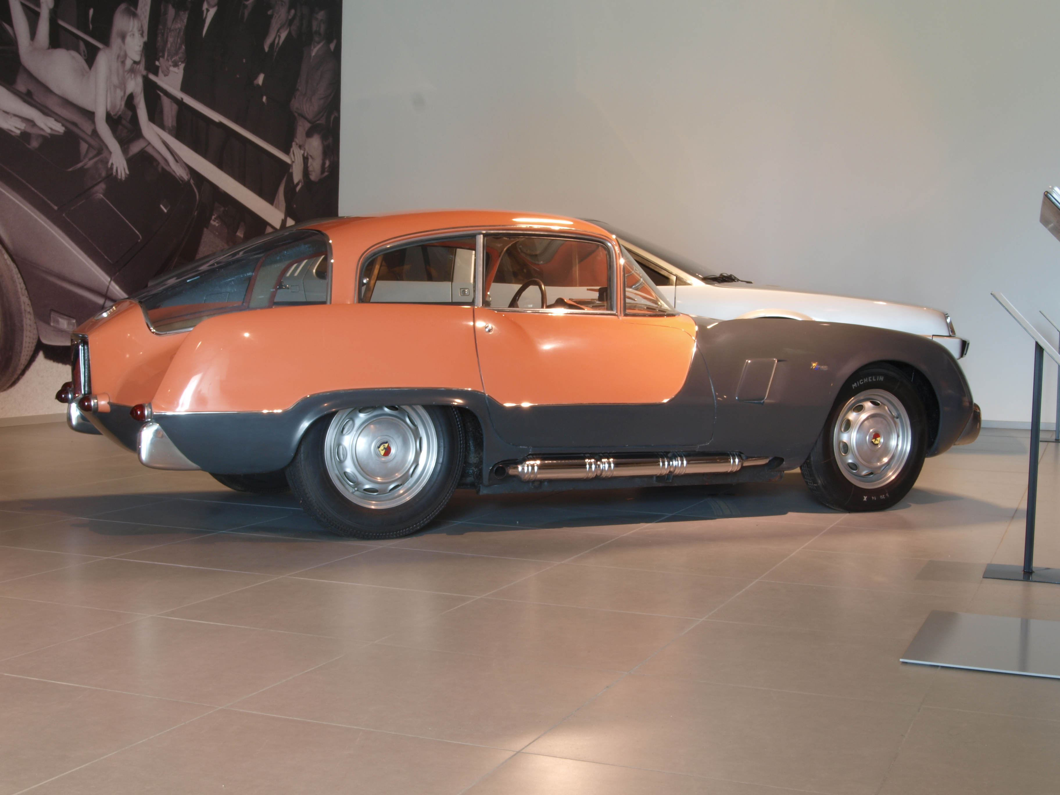 Photographed at the Louwman museum / Louwman Collection, The Netherlands.